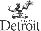 Wordmark of Detroit, Michigan